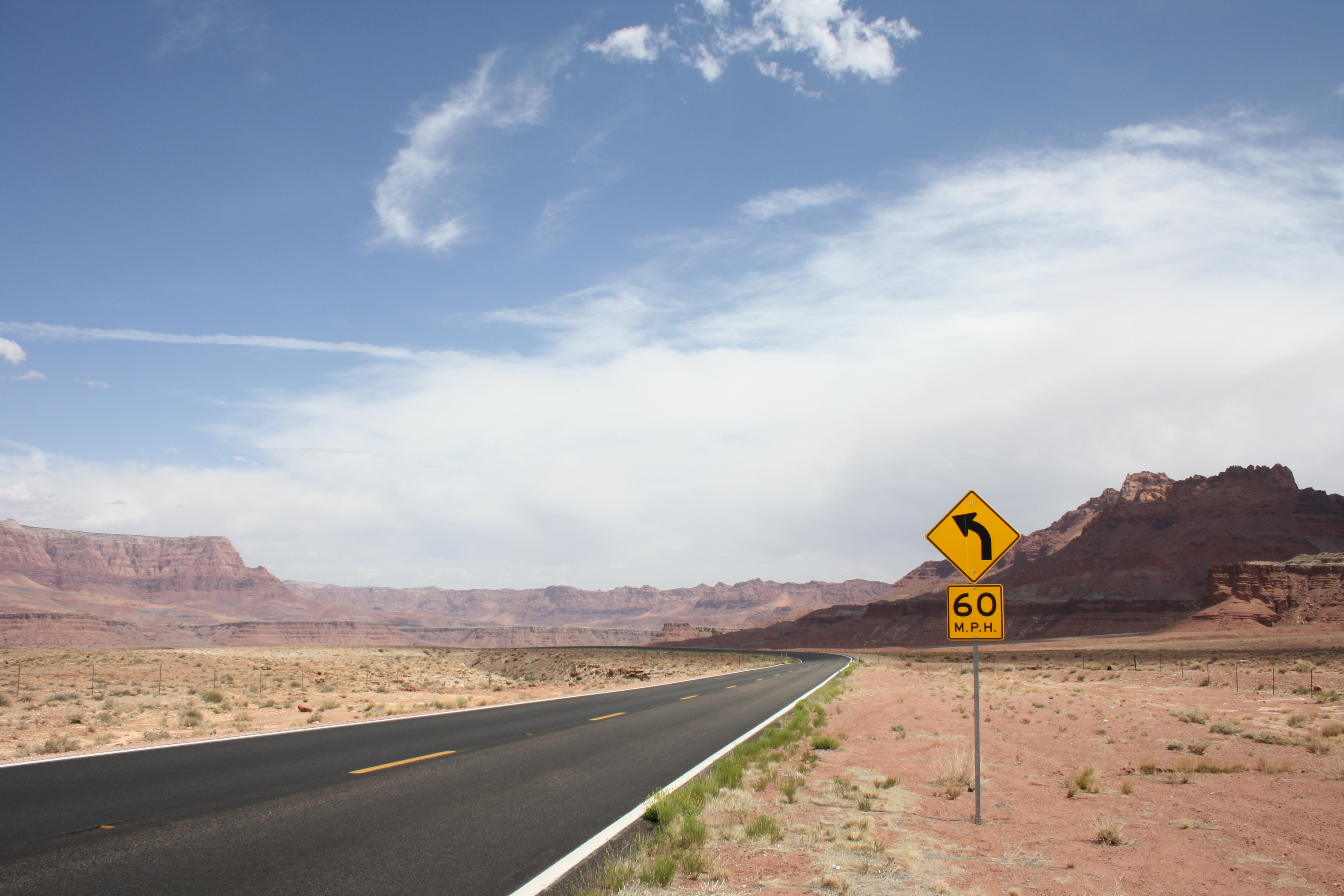 A bend on US Route 89A near Navajo Bridge crossing Colorado River.